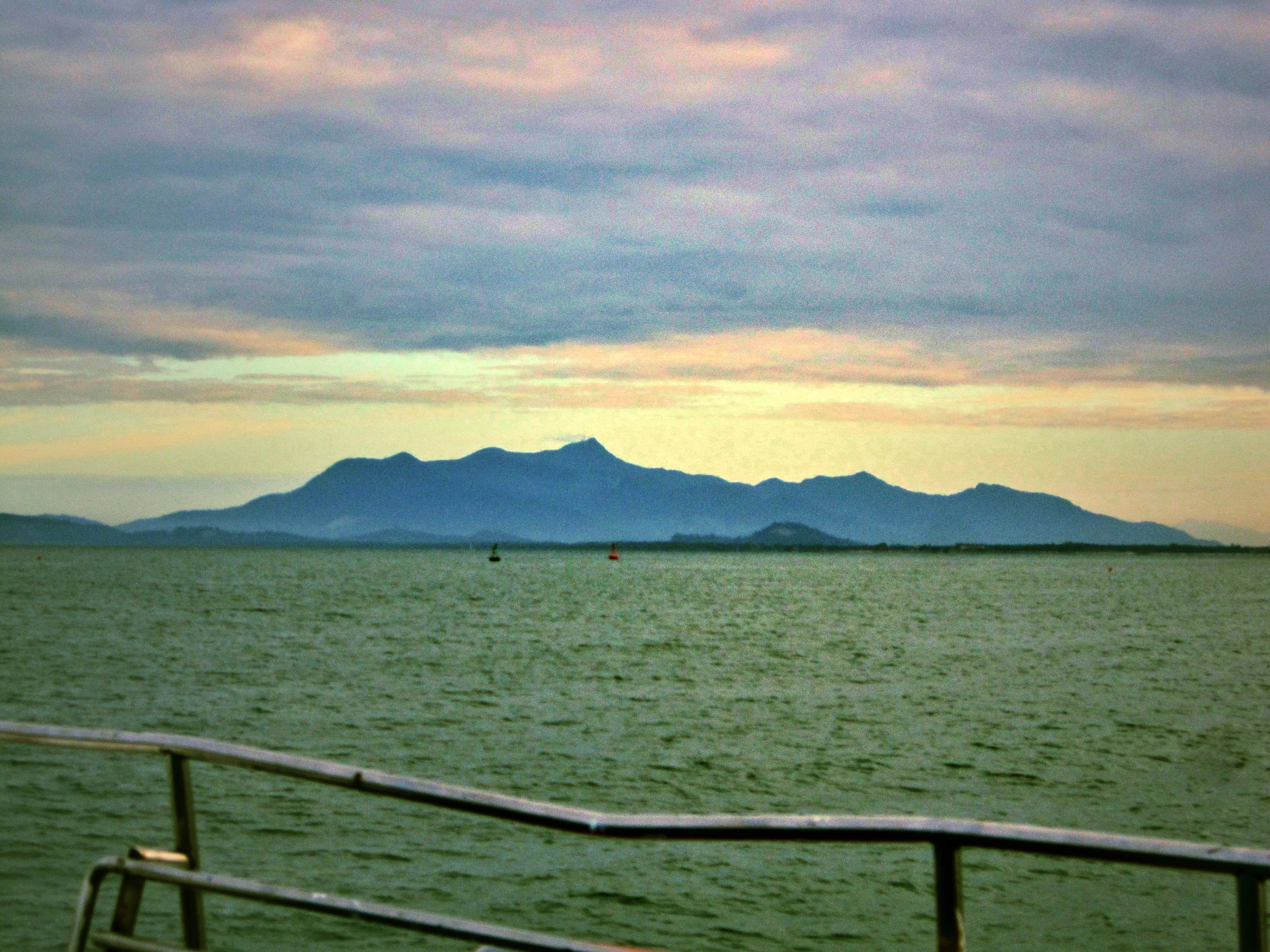 Mount Jerei from the Ferry between Penang and Langkawi